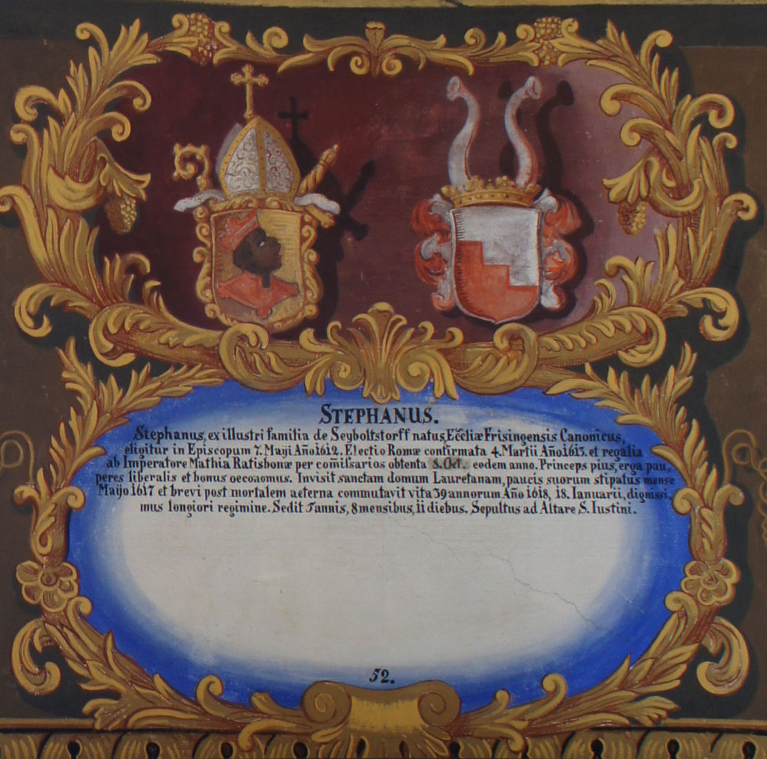 Wappentafel von Stephan von Seiboldsdorf, Fürstbischof von Freising, im Fürstengang zwischen Fürstbischöflicher Residenz und Freisinger Dom. Links das geistliche, rechts das persönliche Wappen, darunter ein lateinischer Text mit kurzer Biographie.